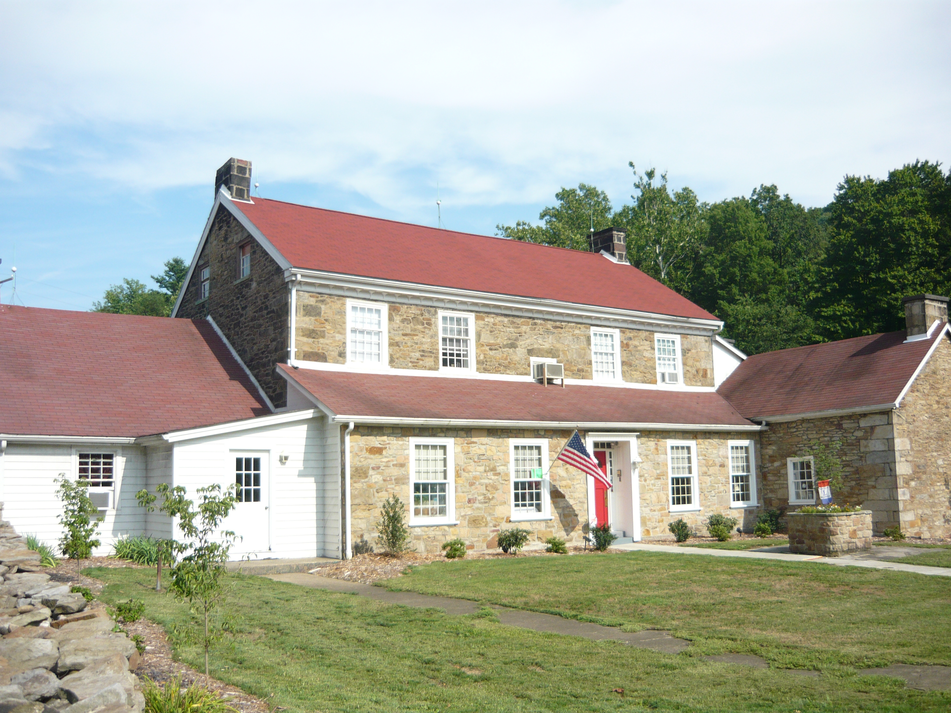 Johnston House (Kingston House), 3435 Route 30 East, Latrobe (actually in Unity Township), Westmoreland County, Pennsylvania. Now known as the "Lincoln Highway Experience". Built by Alexander Johnston in 1815.